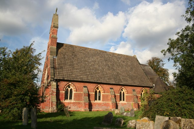 St.Michael's church, Hoveringham By William Knight in 1865 on the site of an earlier church and retains an early Norman tympanum